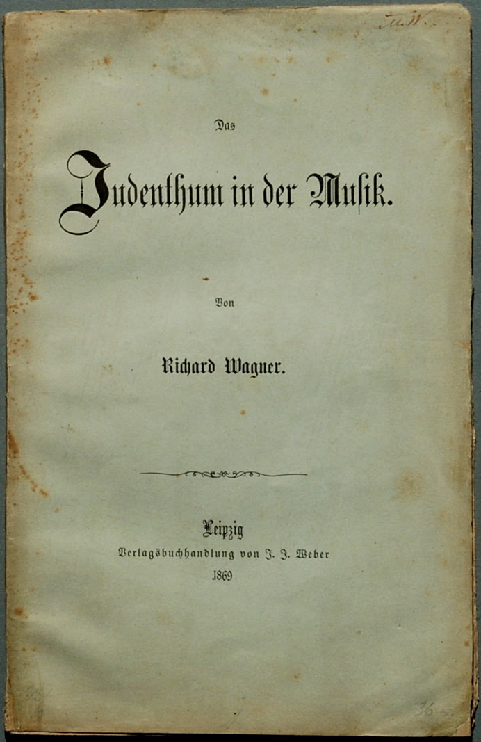 Das Judenthum in der Musik. Original brochure of the first edition 1869